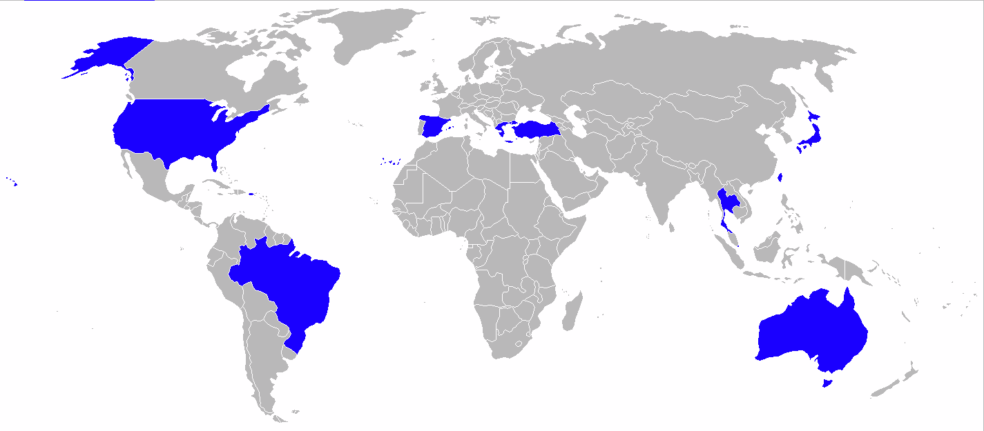 SH-60 Seahawk Operators 2010 (current in blue - former in red)